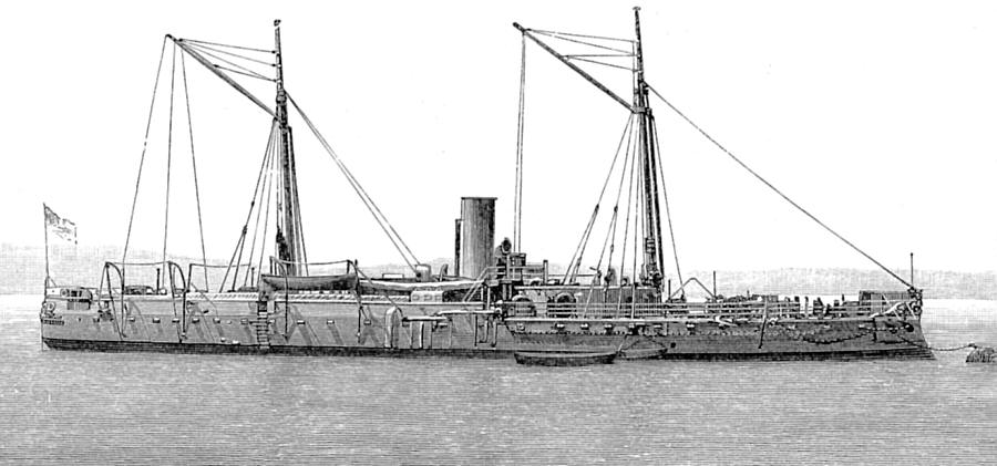 Illustration of British ironclad ram ship HMS Hotspur.